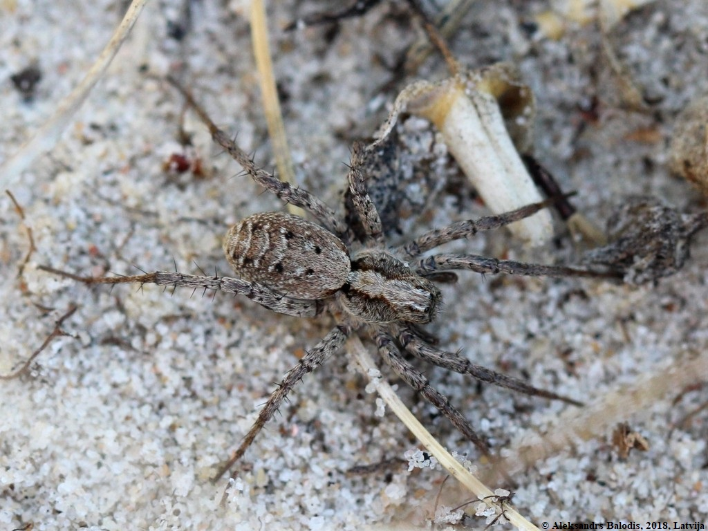 Xerolycosa miniata